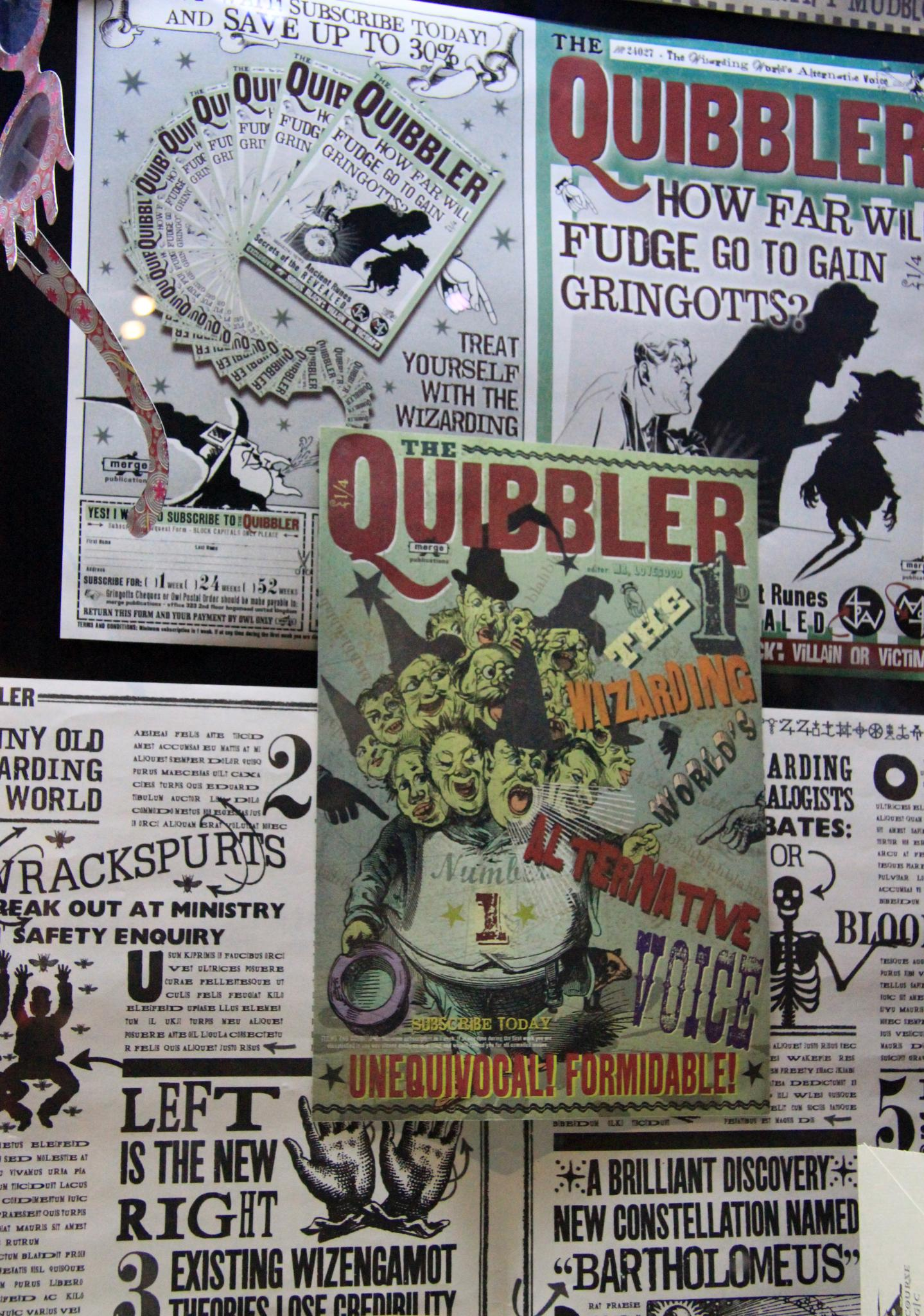 Warner Bros. Studio Tour London: The Making of Harry Potter.